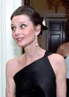 Audrey Hepburn at a private dinner for the Prince of Wales at the White House.